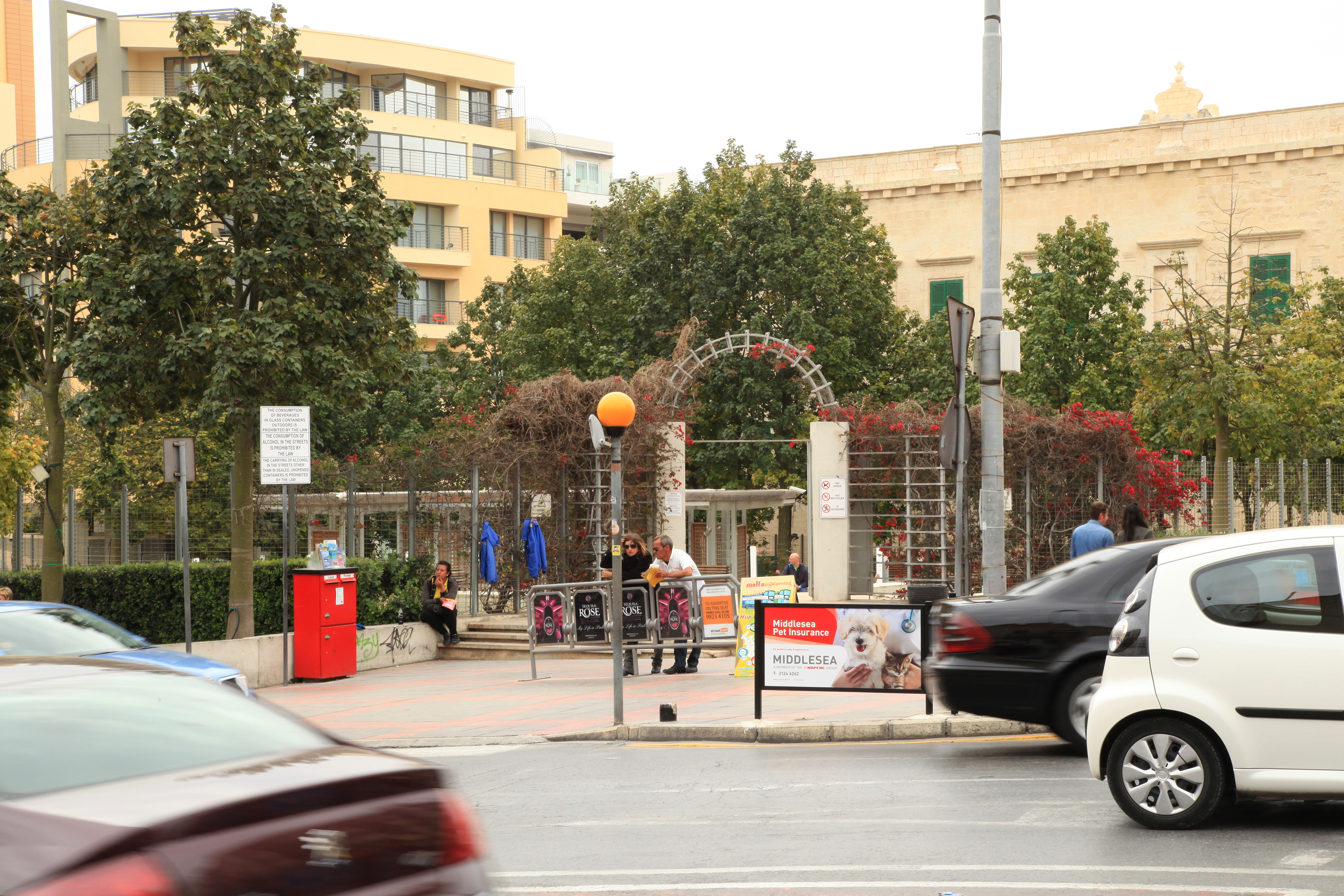 Spinola Palace Garden, Triq San Ġorġ / Triq Ross in St. Julian's, Malta